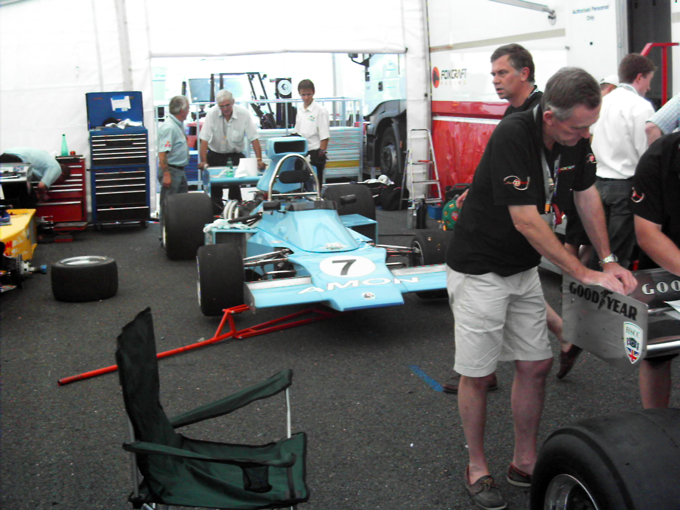 Amon Car